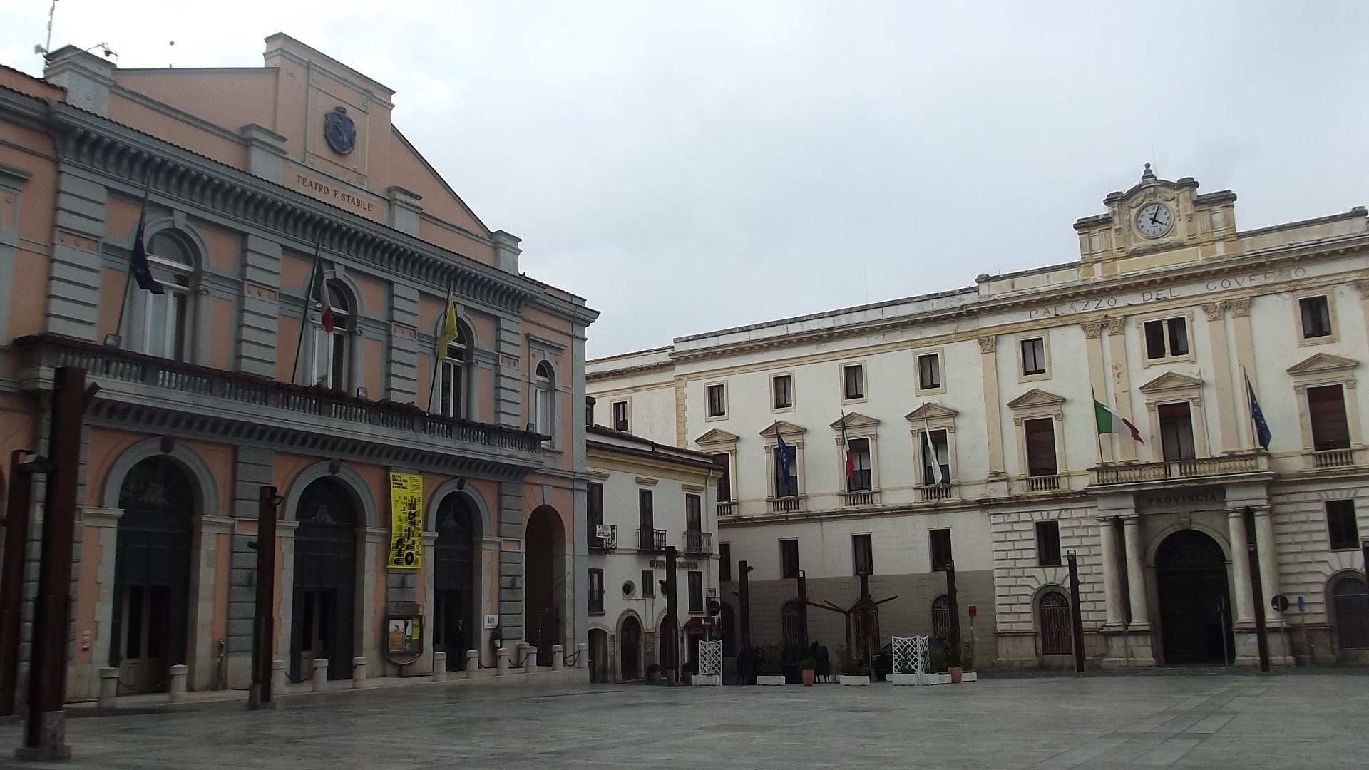 This is a photo of a monument which is part of cultural heritage of Italy.